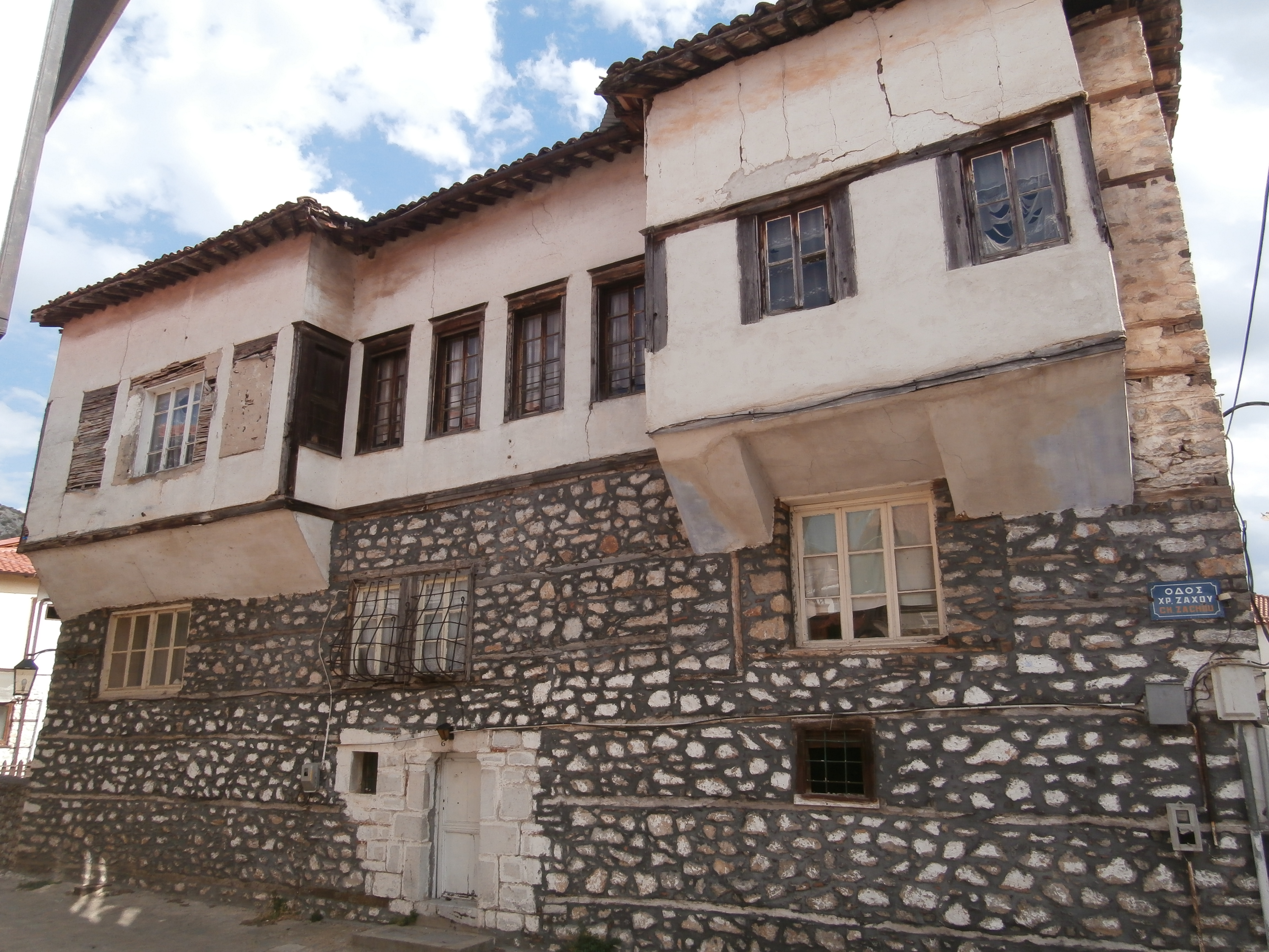 A mansion in Kastoria